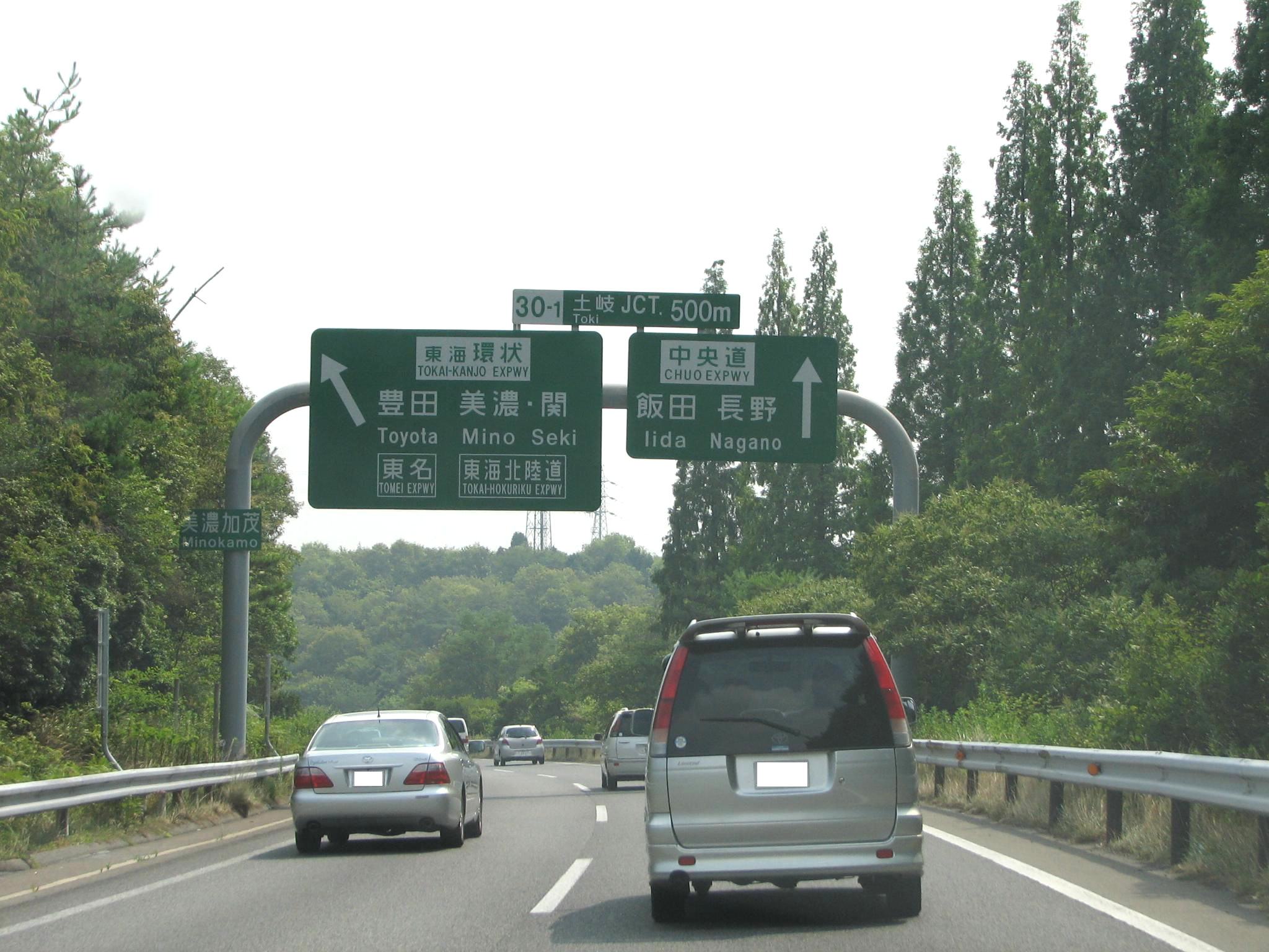 Toki JCT (For Okaya)